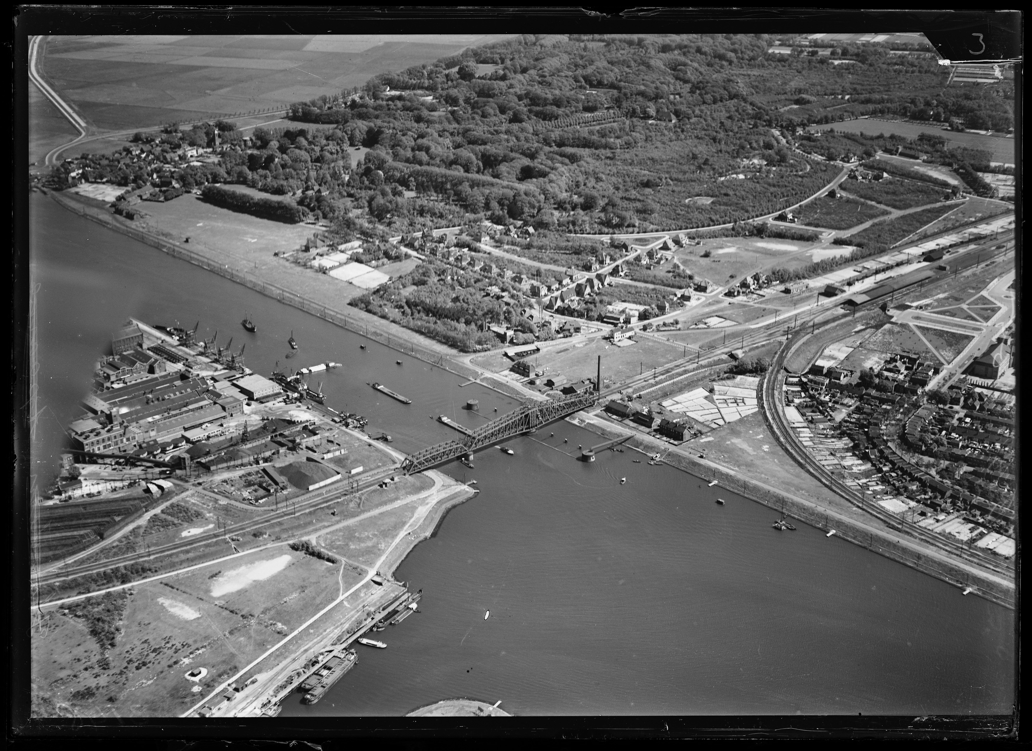 Aerial photograph of IJmuiden, The Netherlands